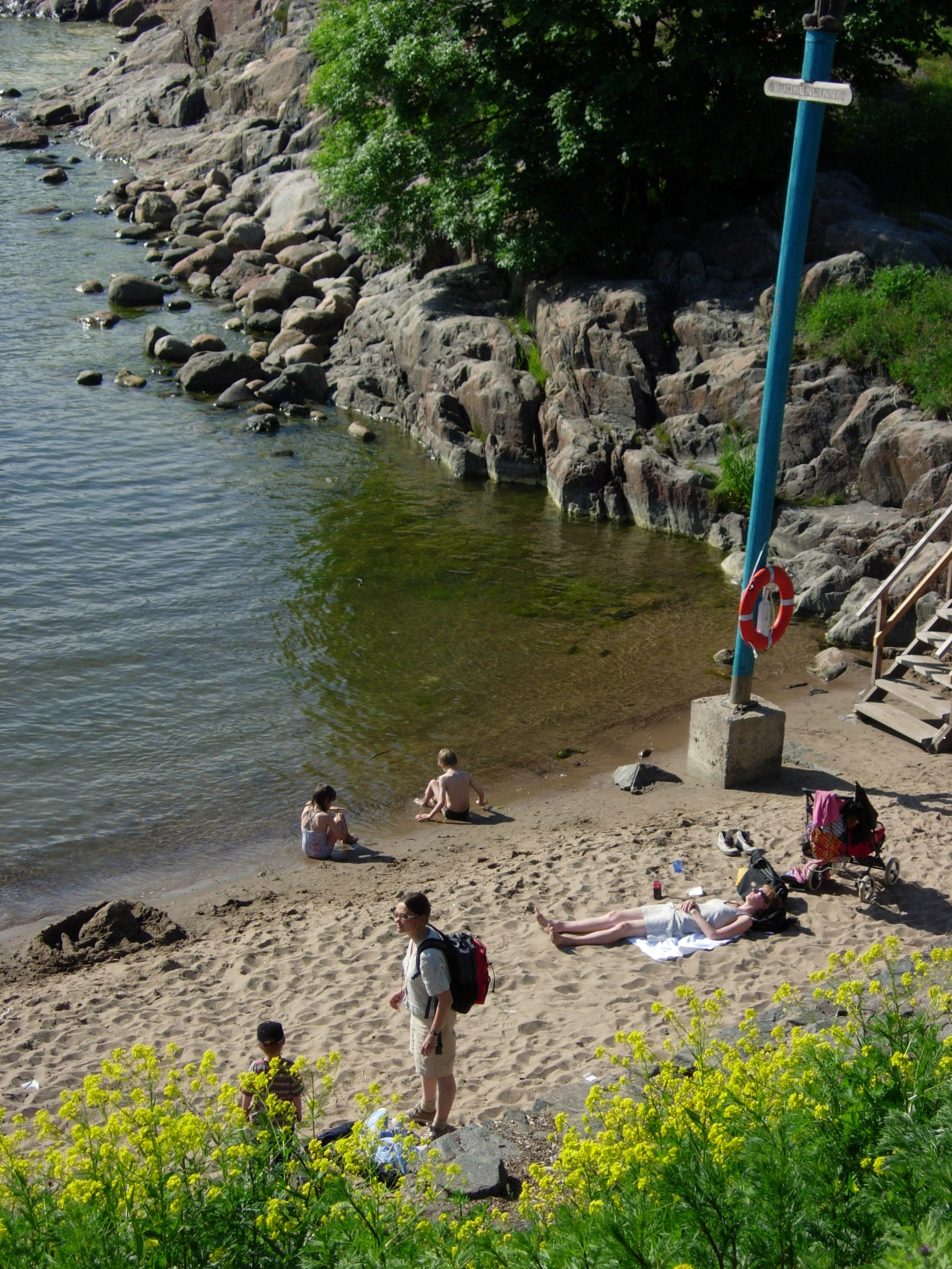 A tiny beach at Suomenlinna, in Susisaari.